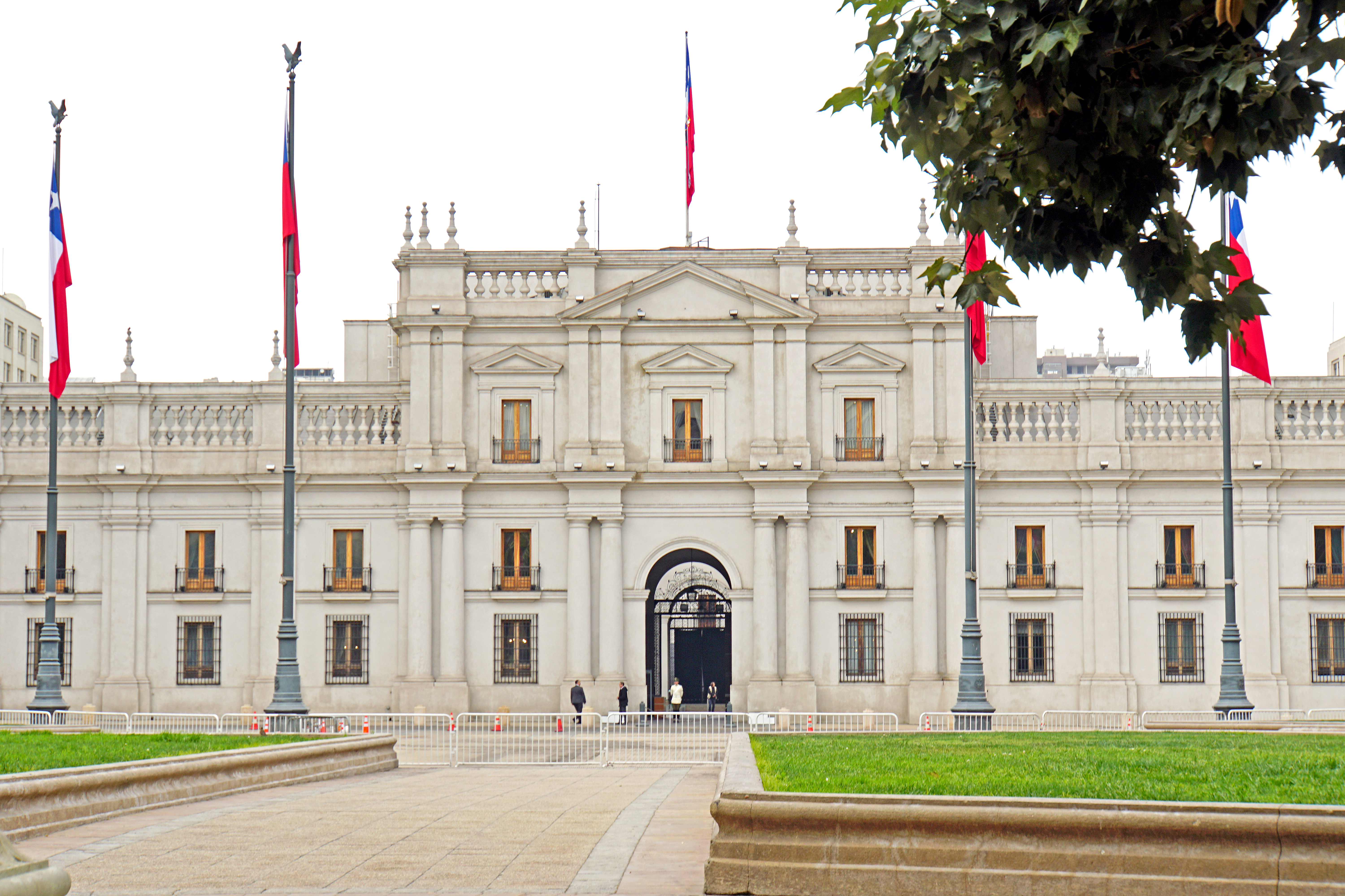 PLEASE, NO invitations or self promotions, THEY WILL BE DELETED. My photos are FREE to use, just give me credit and it would be nice if you let me know, thanks. La Moneda (Presidential Palace), Constitution Plaza. It was originally a colonial mint house. Construction began in 1784 and was opened in 1805. The production of coins in Chile took place at La Moneda from 1814 to 1929. It became the seat of government in 1845. It also houses the offices of three cabinet ministers: Interior, General Secretariat of the Presidency and General Secretariat of the Government.